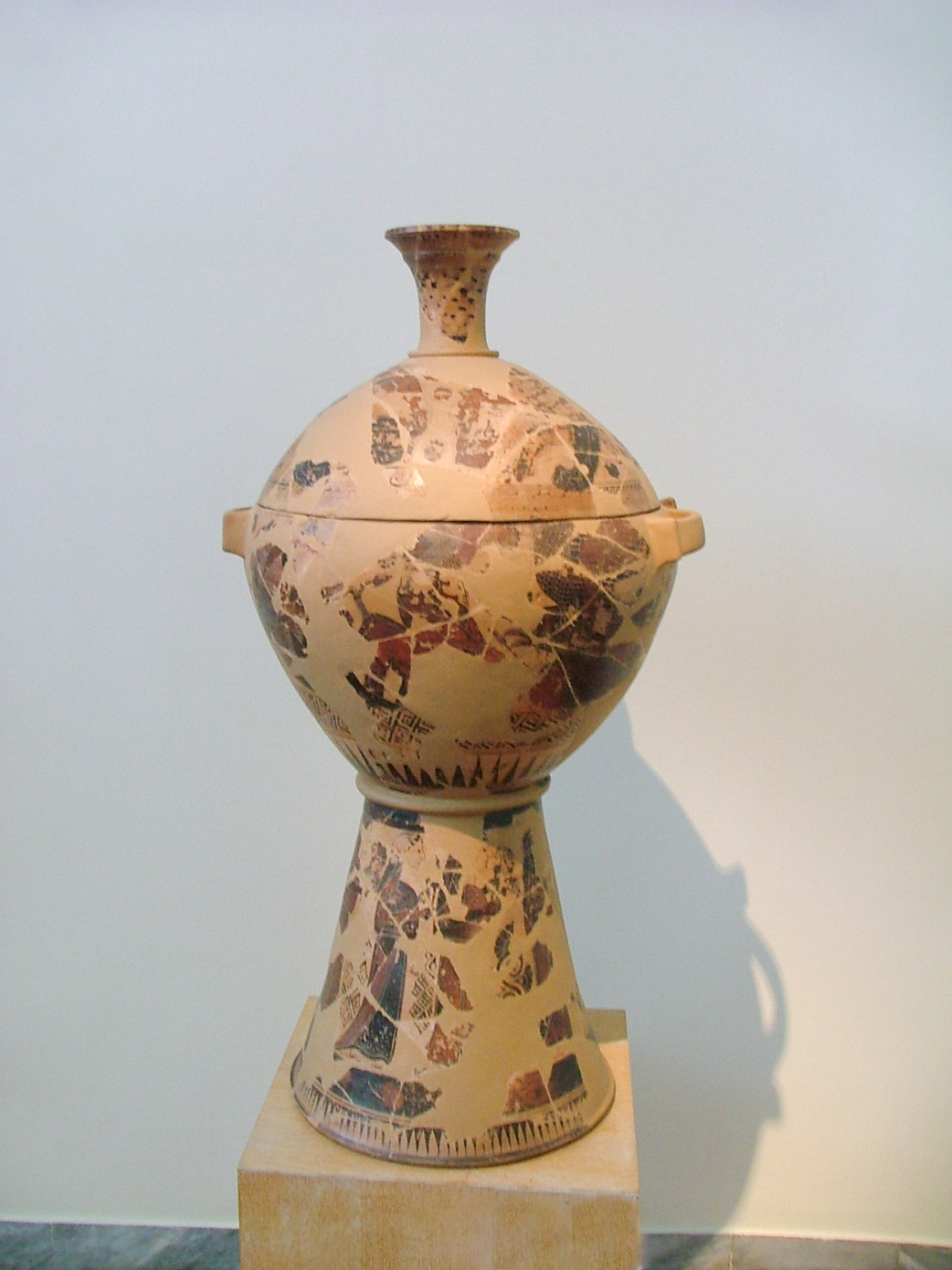 From the Anagyrous cemetery at Vari, Attica. On the body of the base, Prometheus chained to a high post. Opposite him, Heracles is ready to shoot an arrow at the eagle. On the lid two confronting lions. On the base a procession of women. Around 620 BC.